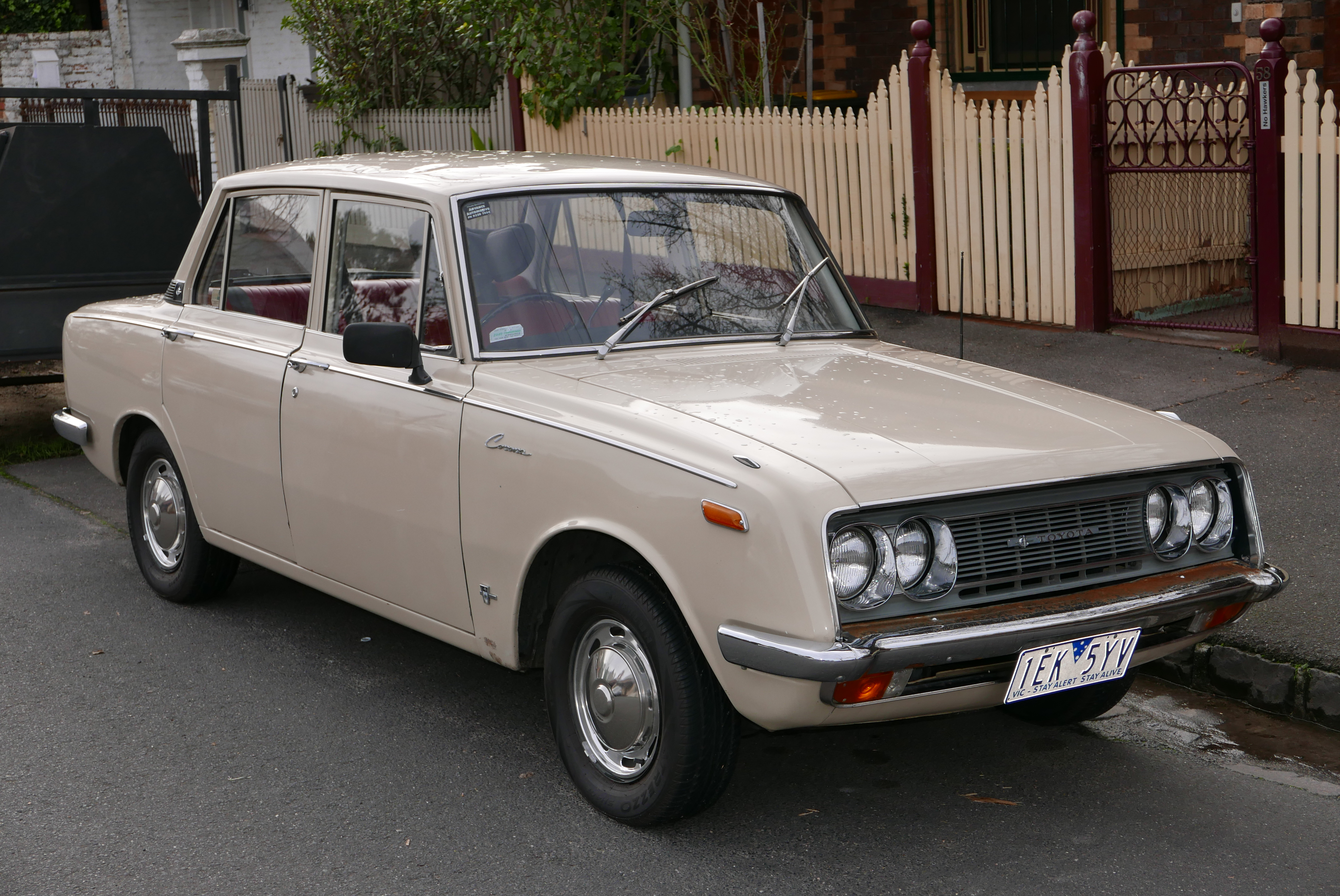 1969 Toyota Corona (RT40) sedan. Photographed in Fitzroy North, Victoria, Australia. Vehicle registration enquiry results Jurisdiction Victoria Registration 1EK5YV Chassis code RT40556144 Engine code A2R008916 Compliance date 1900-01 (not a typo) Year of manufacture 1969